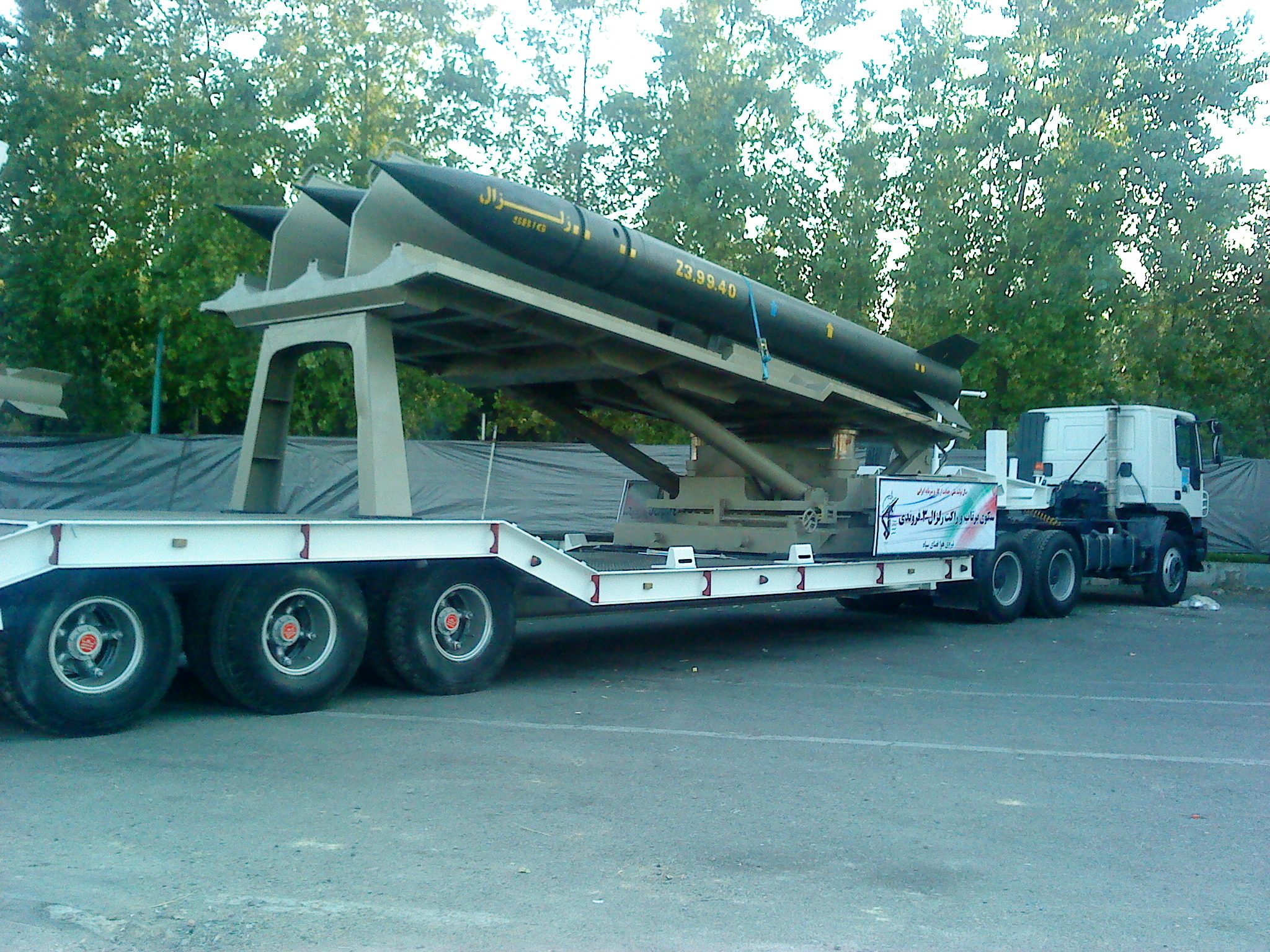 Zelzal 3 2012